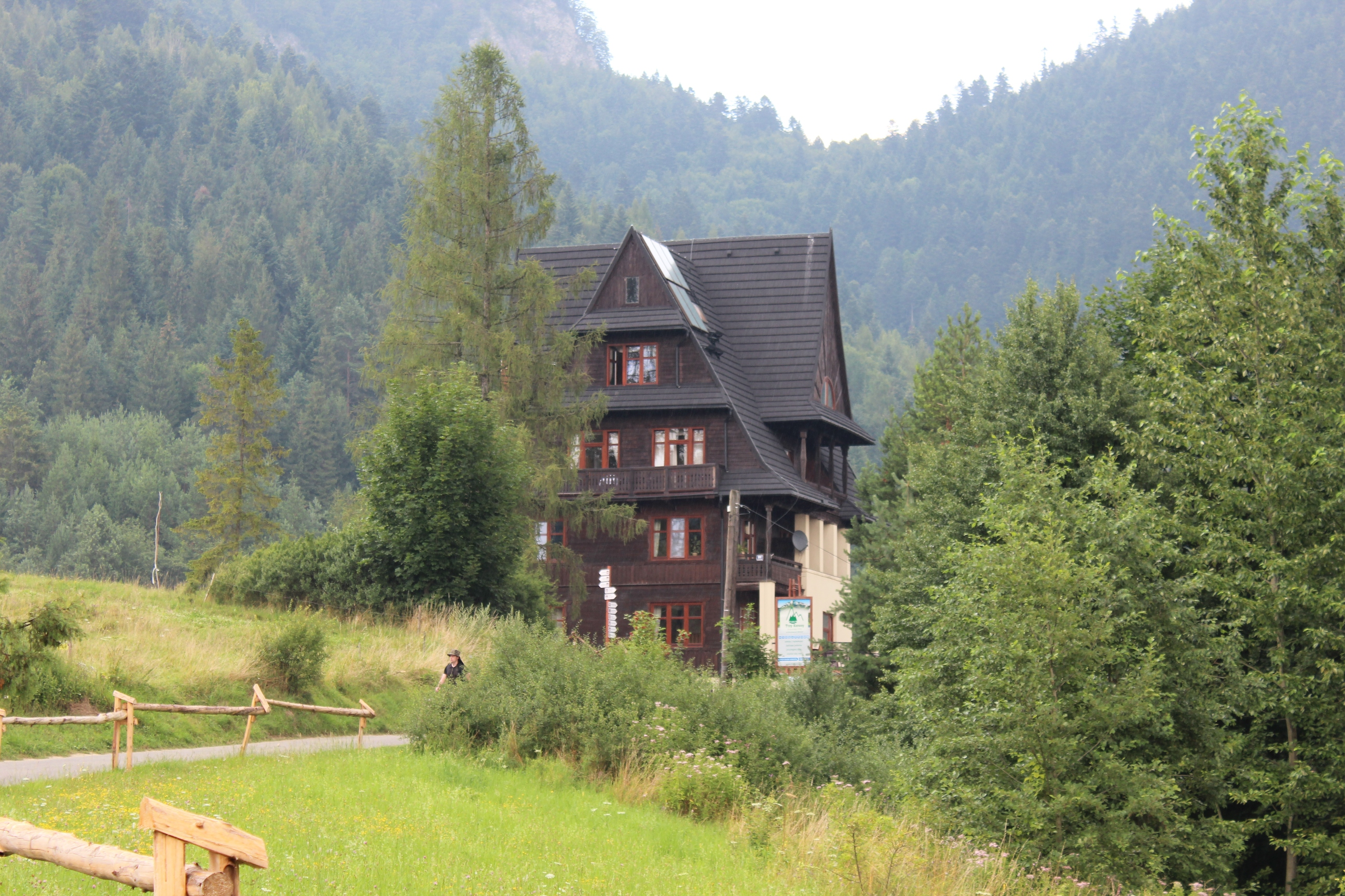 Trzy Korony mountain hut